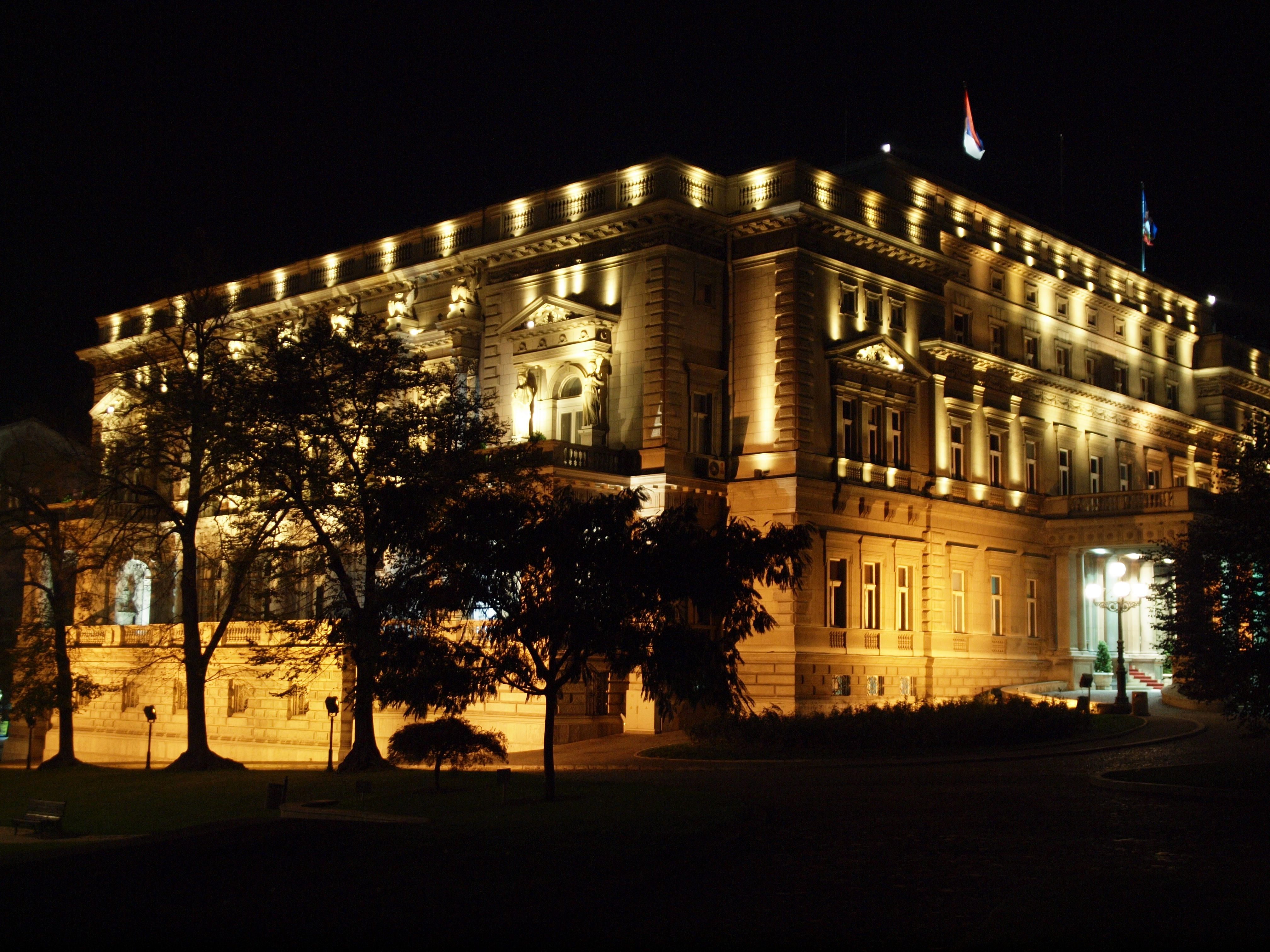 Stari Dvor nightscene